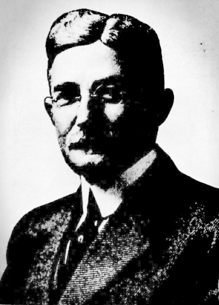 A newspaper photograph of Walter E. Pierce in 1917